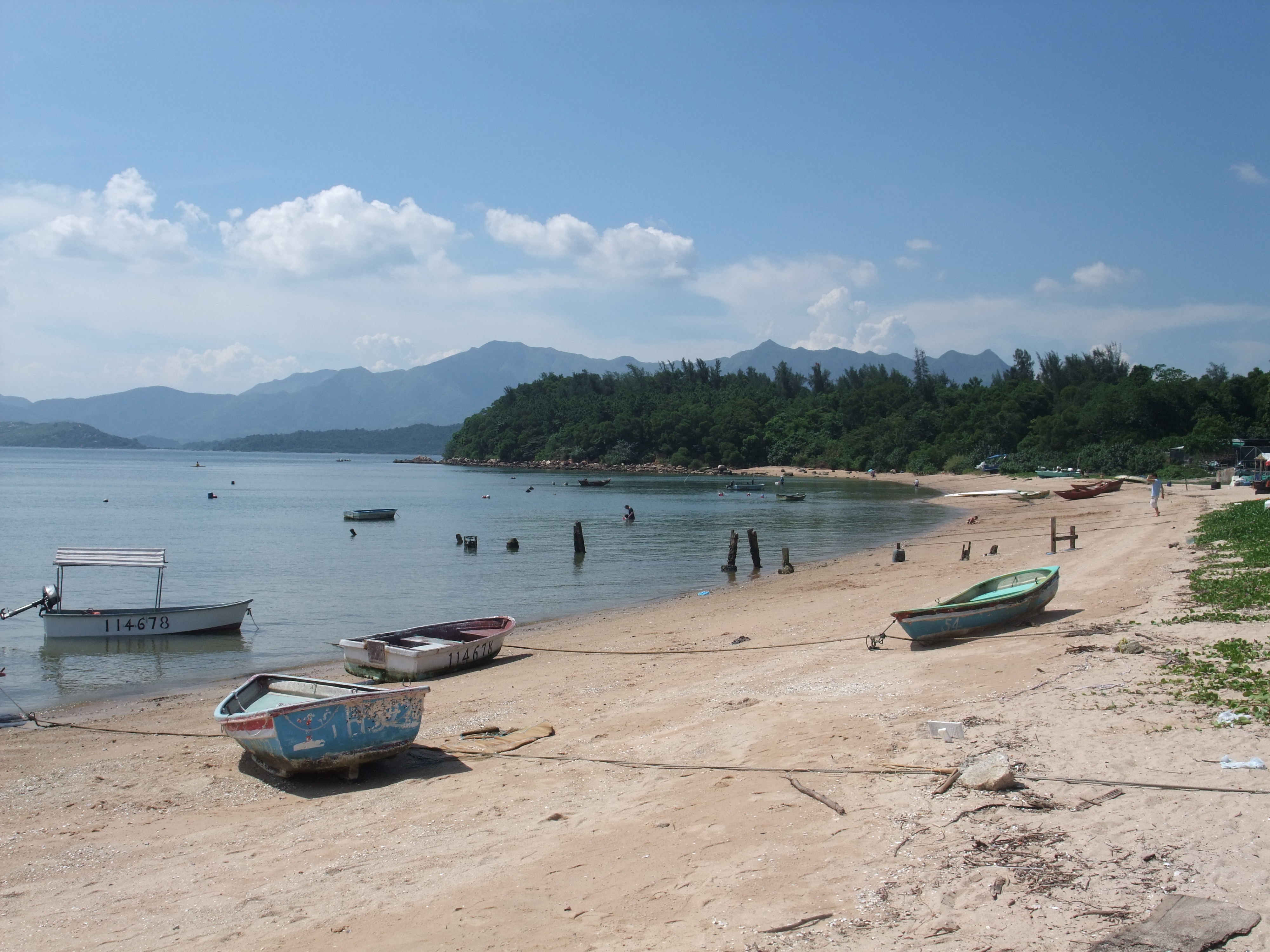 Photo of Wu Kai Sha Tsui